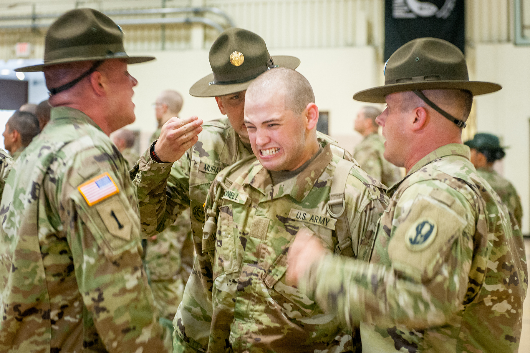 Army recruit being trained in basic training